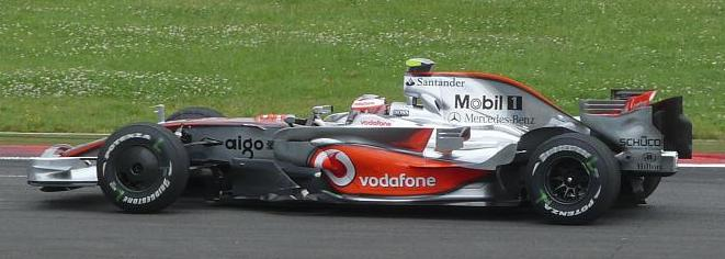 Heikki Kovalainen driving for McLaren at the 2008 French Grand Prix.